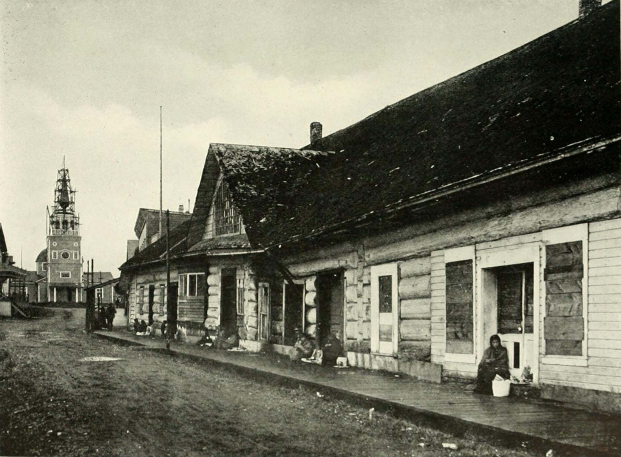 The old Russian trading post at Sitka, Alaska; native women sit on the board walk; St Michael's cathedral is visible in the background with scaffolding on the steeple. This photo was captioned "block house" in the source.